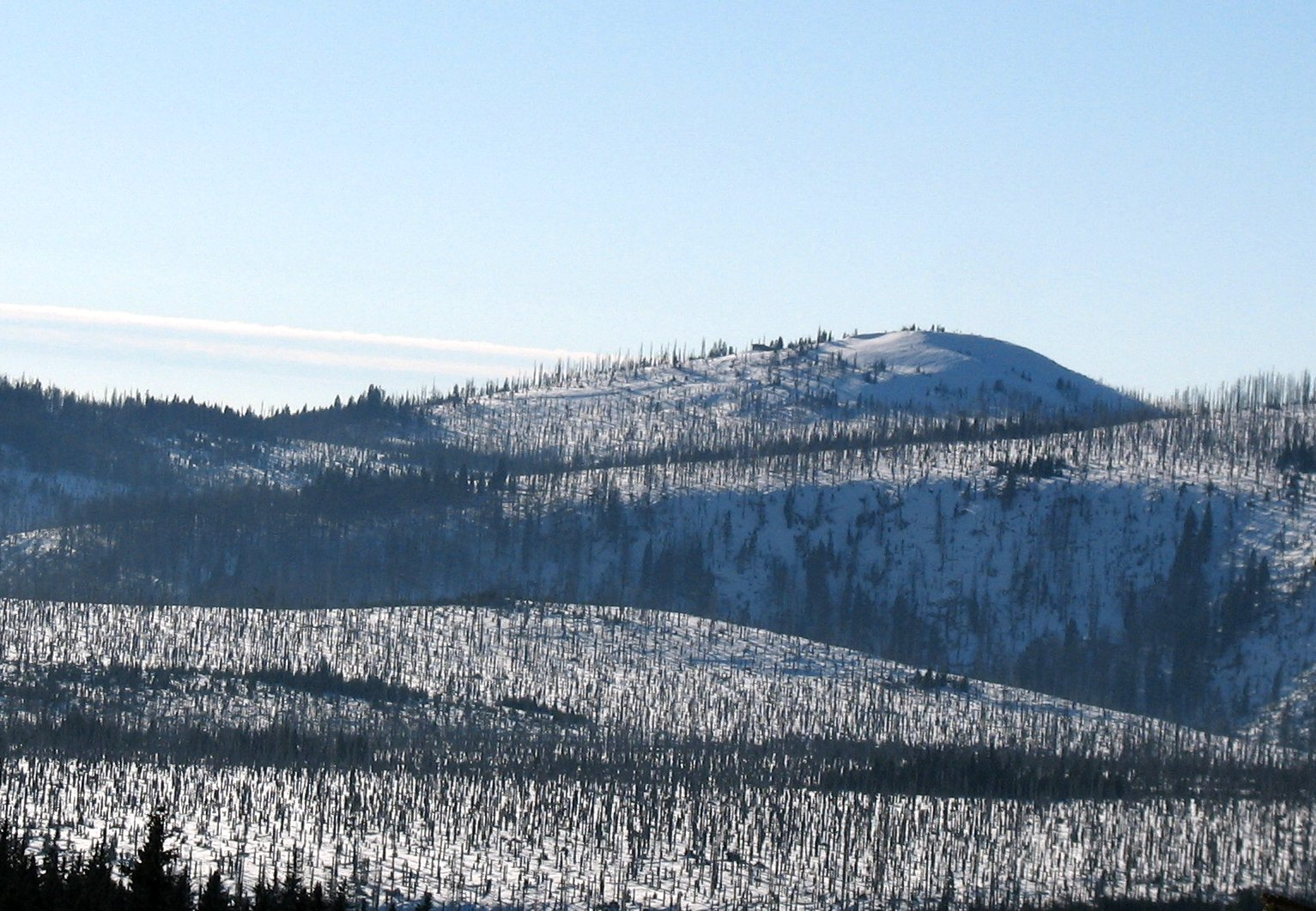 Mountain Lusen in the Šumava Mts. in Germany